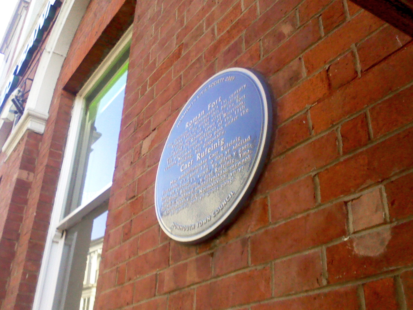 Blue plaque situated on a wall outside Lloyds TSB bank, in Monmouth, Wales. The plaque, erected in 2009, commemorates the Roman Fort of Blestium, the remains of which now lie under the town.